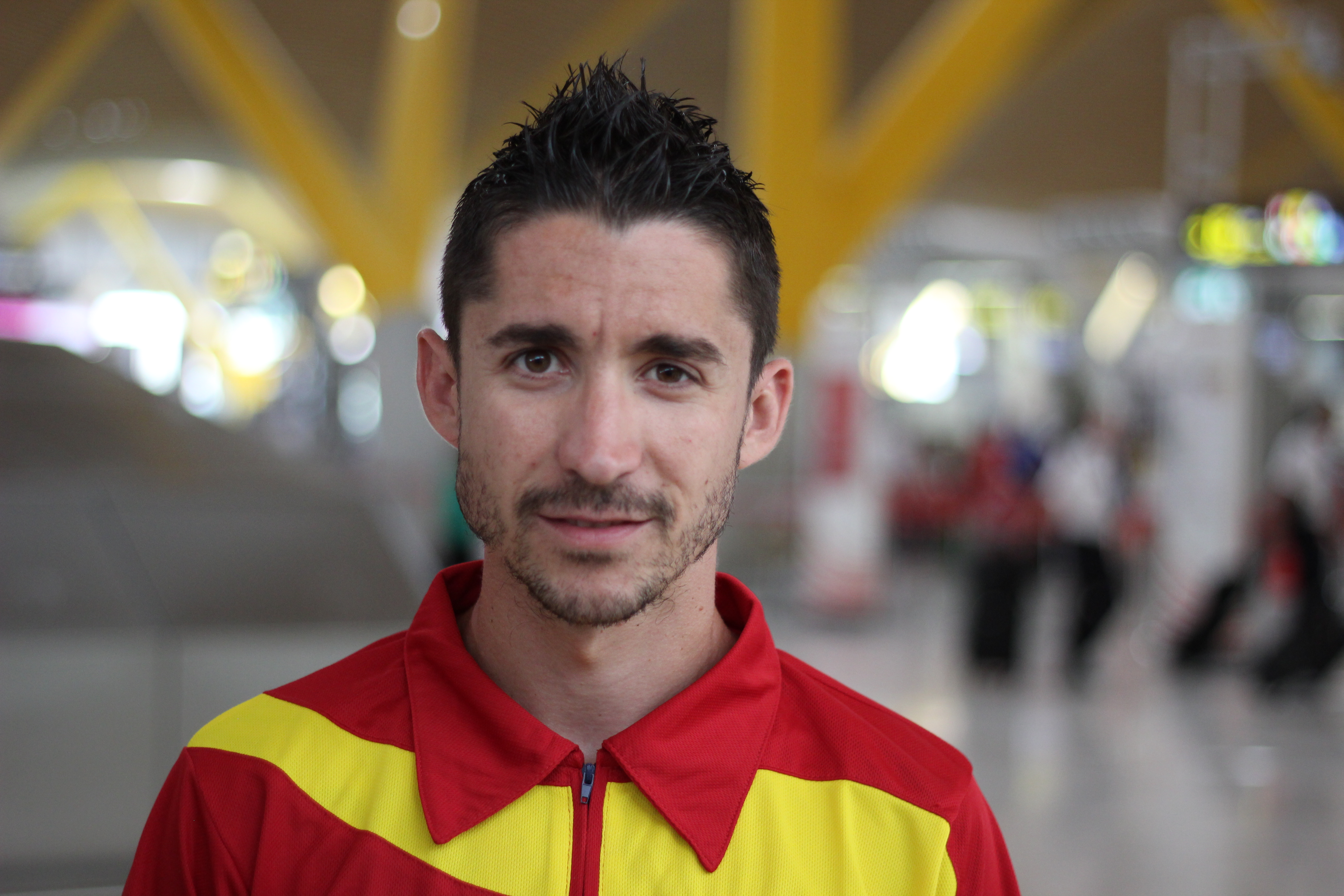 Spanish track and field athlete picture taken at the airport before departure from Madrid to compete at the 2013 IPC Athletics World Championships in Lyon France.